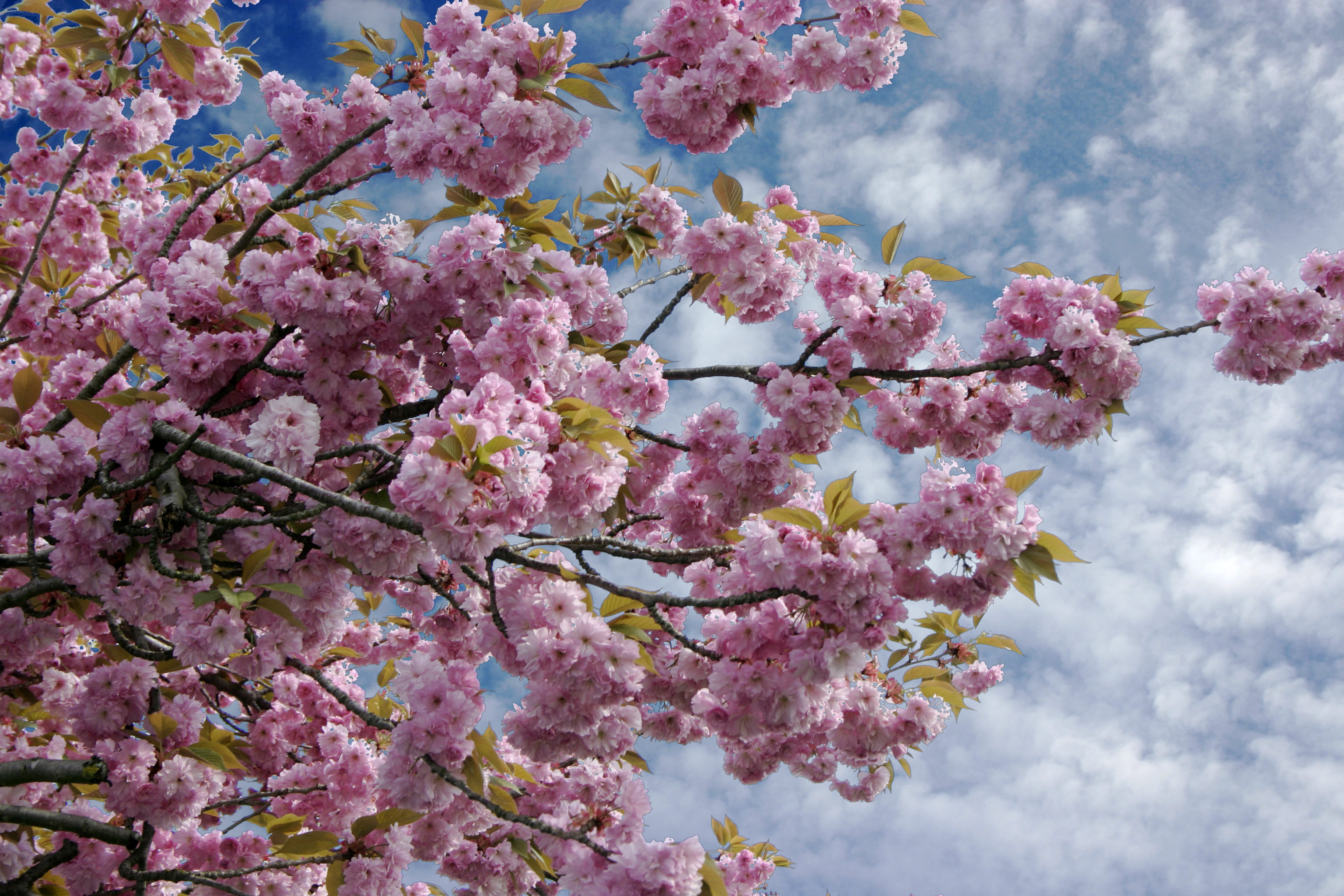 Japanese Cherry Tree - Blossoms